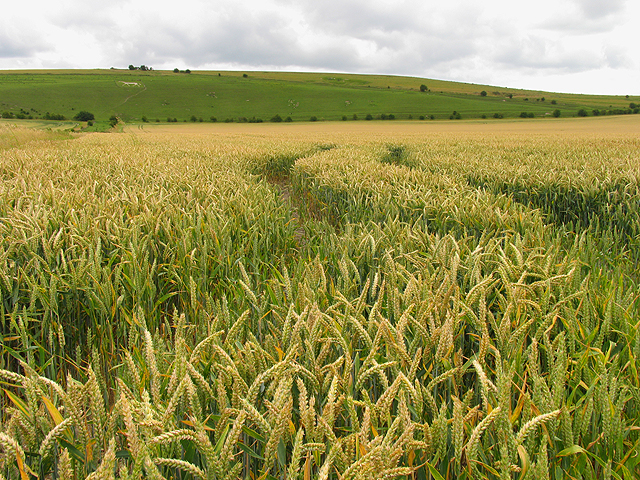 Farmland near Pewsey Hill The Pewsey White Horse can be clearly seen for miles around.